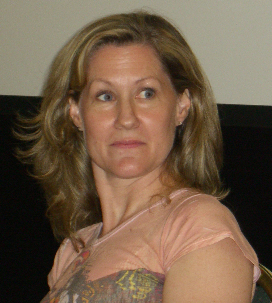 Voice actor Veronica Taylor speaking on a panel on voice acting at the Big Apple Convention in Manhattan, June 8, 2008.